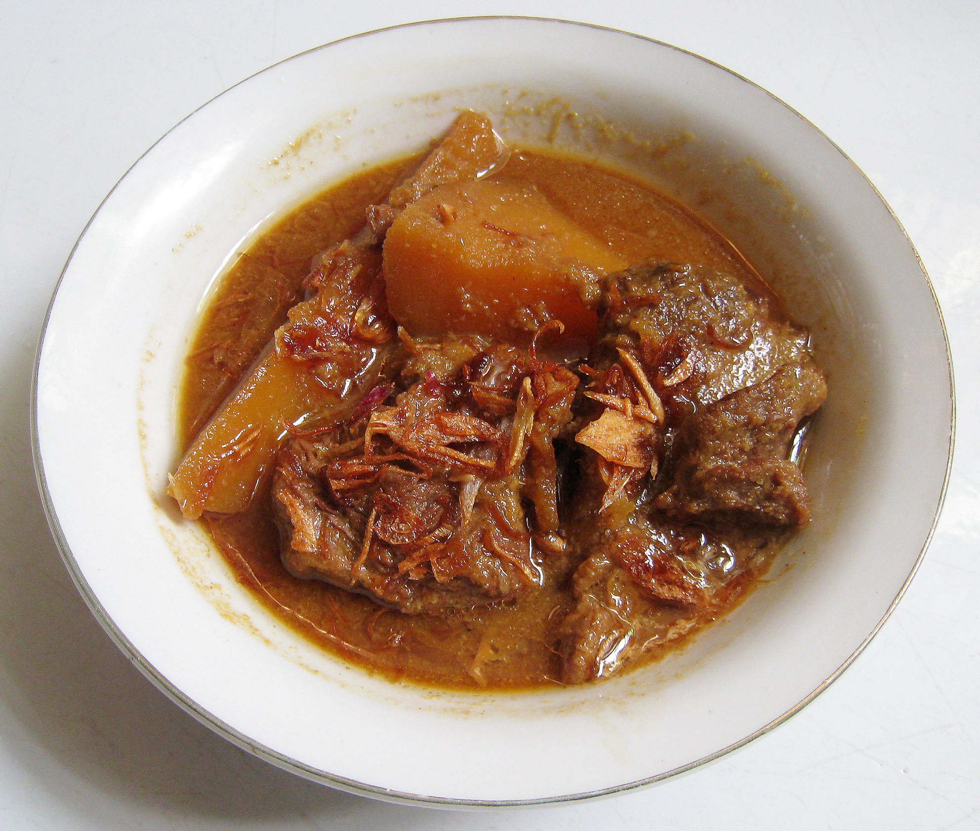 Semur Daging, Indonesian beef stew with potato. Beef and potato simmered in kecap manis (sweet soy sauce) spiced with garlic, shallot, nutmeg, cloves, and cinnamon, sprinkled with bawang goreng (fried shallot). Home made dish in Jakarta, Indonesia.